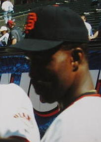 JT Snow (center) self created photograph by BurmaShaver, pd-self 23:49, 17 May 2006 . . BurmaShaver . . 562×424 (49 KB)